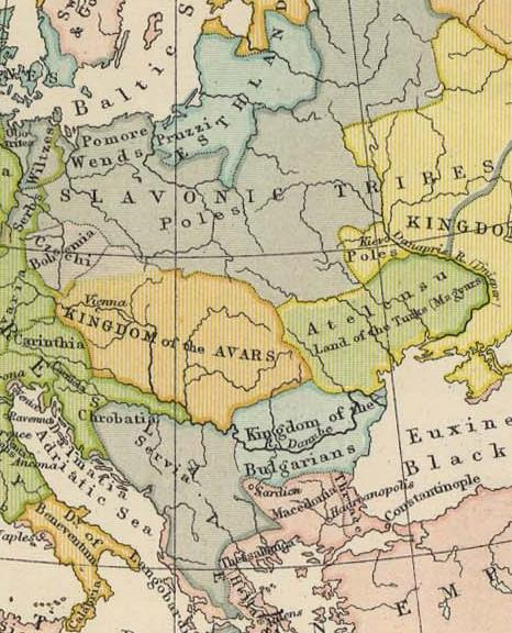 The Public Schools Historical Atlas edited by C. Colbeck, published by Longmans, Green, and Co. 1905.